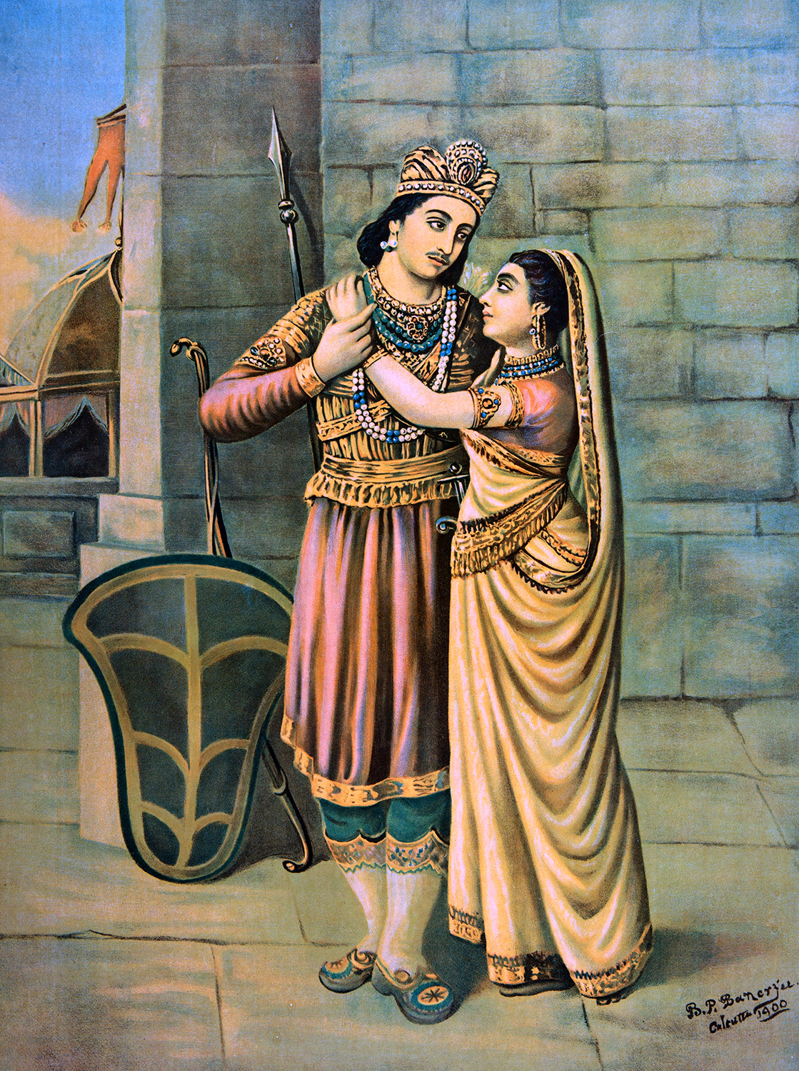 Avimanyu’s farewell to Uttara B. P. Banerjee Date: 1900 Dimensions: H. 50.8 cm, W. 38 cm Medium: Oleograph on paper Region: Austria (printed), Bengal Museum number: POP.01690